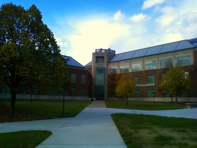 Doane Hall of Chemistry and Environmental Studies